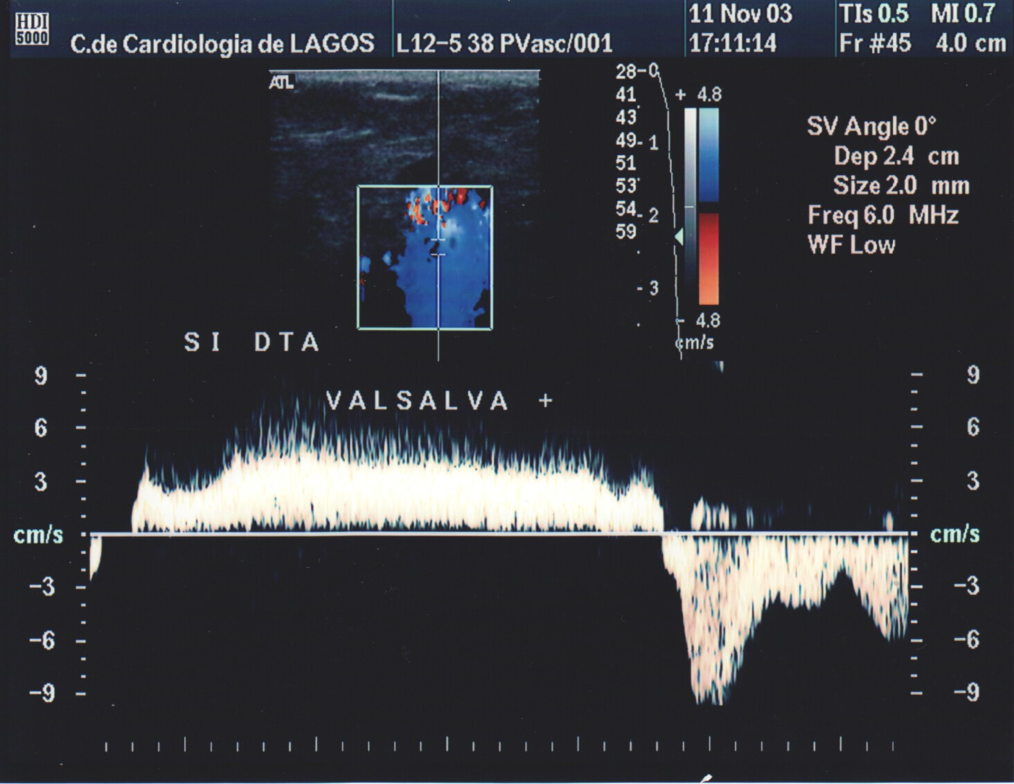 Great saphenous vein insuficient at ostium - Valsalva +